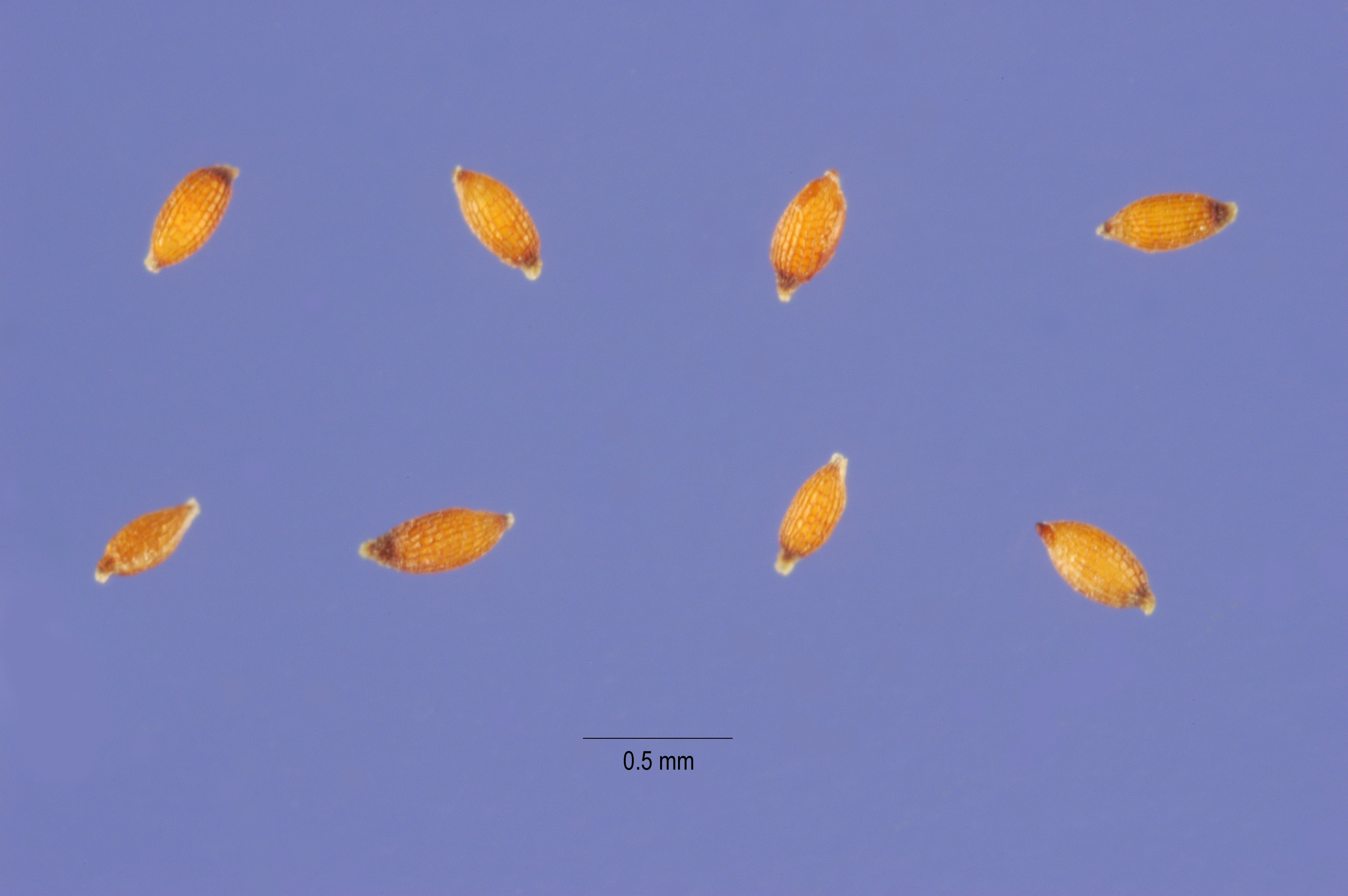 Juncus ensifolius seeds